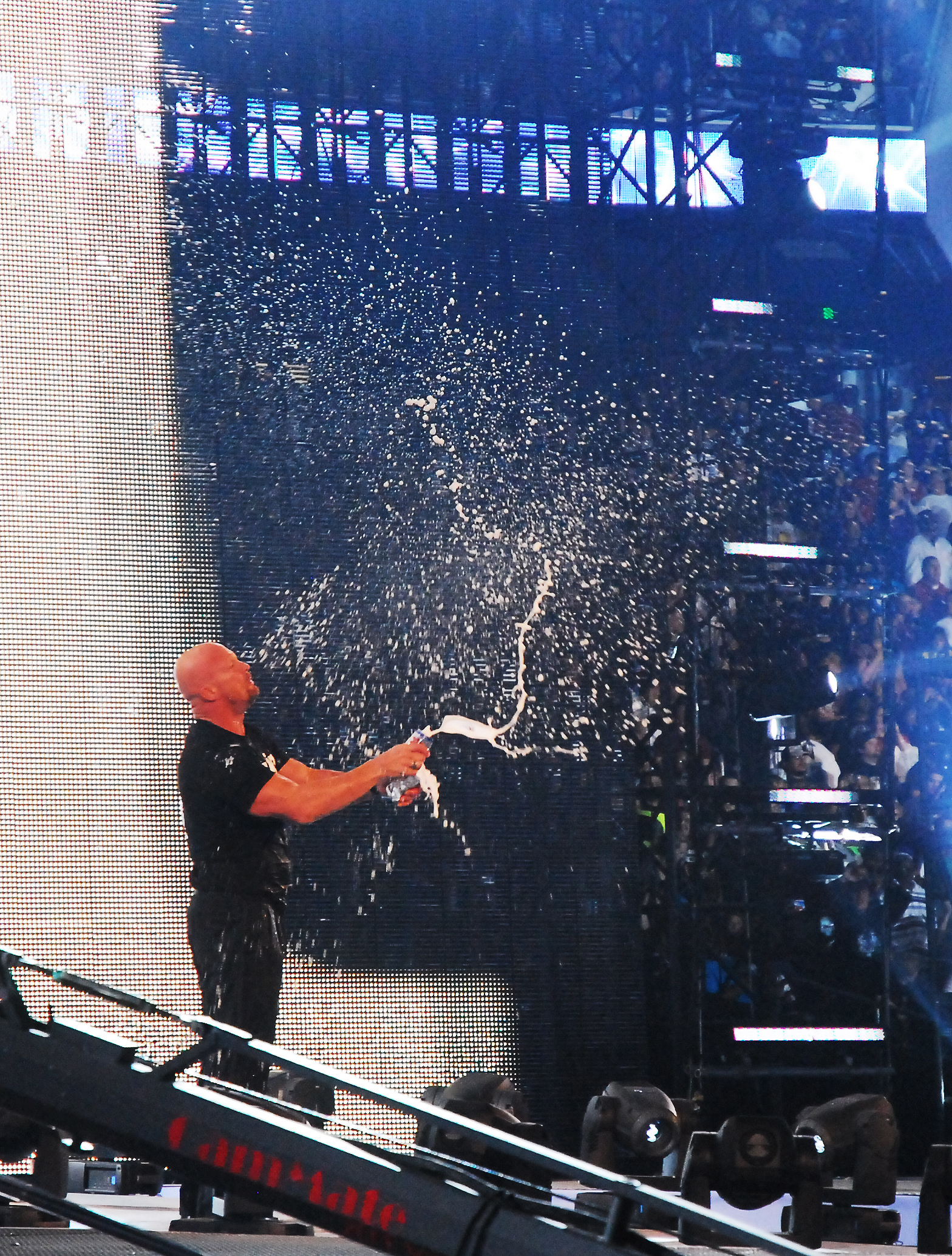 Stone Cold Steve Austin performing his signature beer smash at WrestleMania XXV on April 5, 2009 at the Reliant Stadium in Houston, Texas.